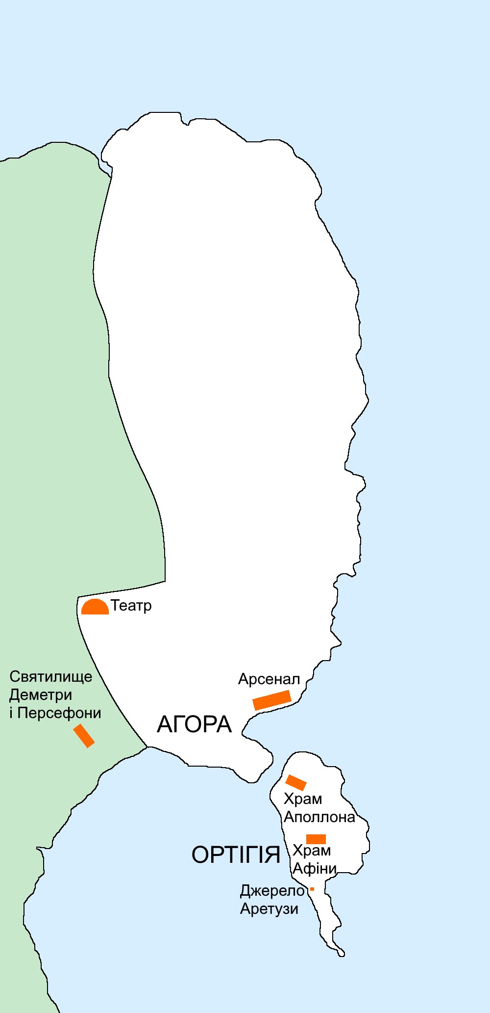 Map of Syracuse in the Classical Time (middle of the V cent. BC)